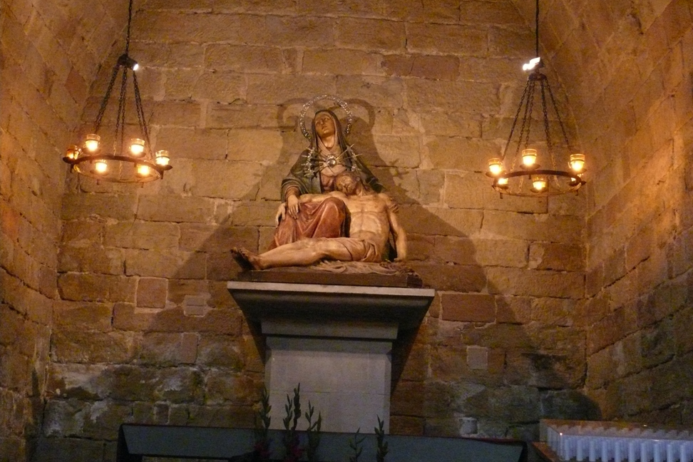 Igualada.